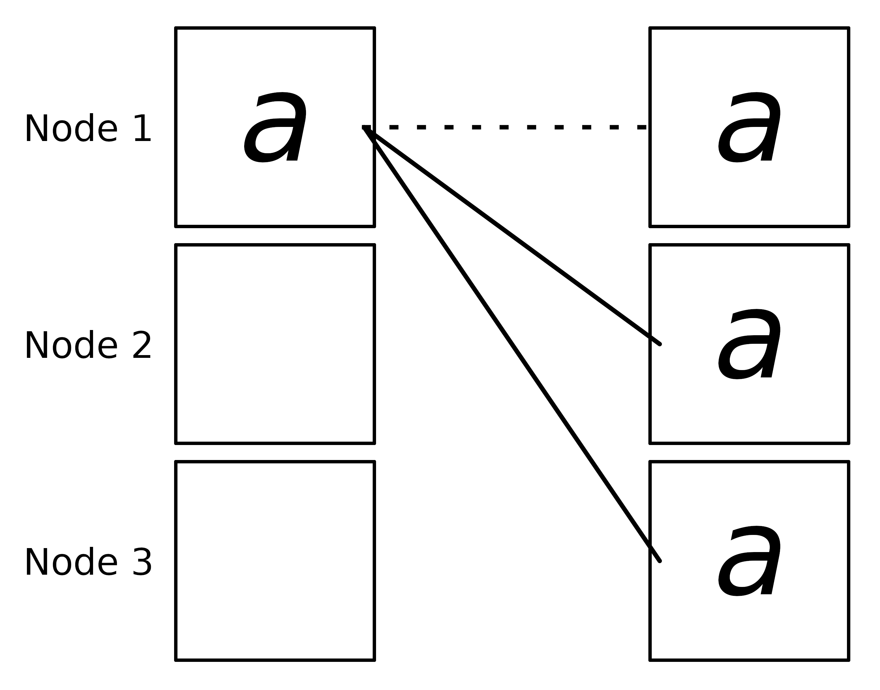 Information from one node is distributed to all other nodes.